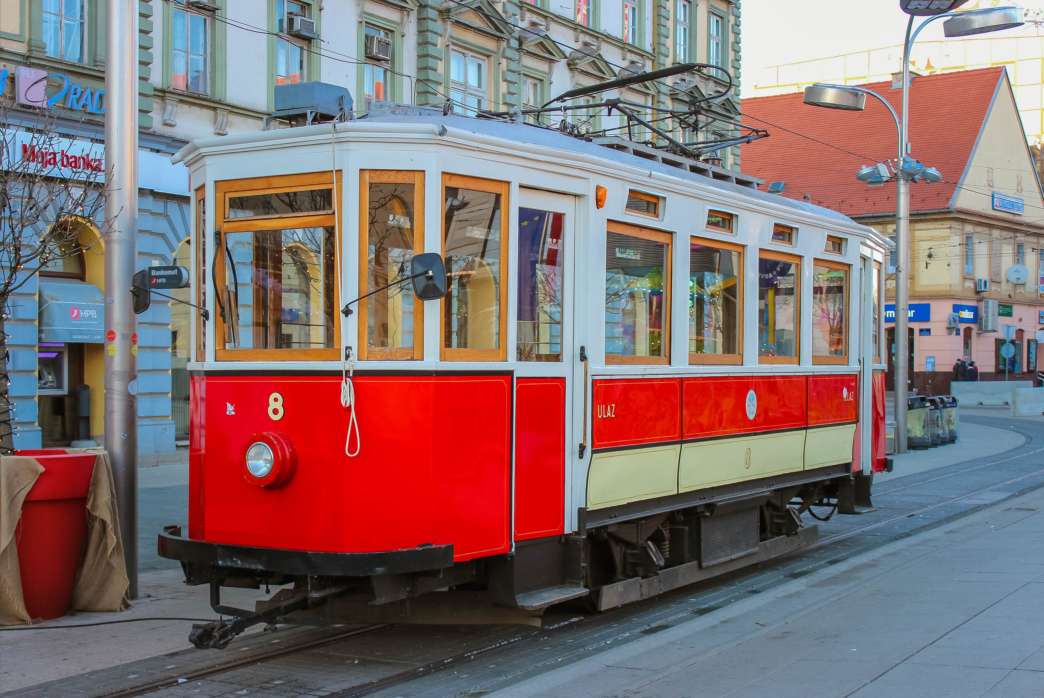 Public transport